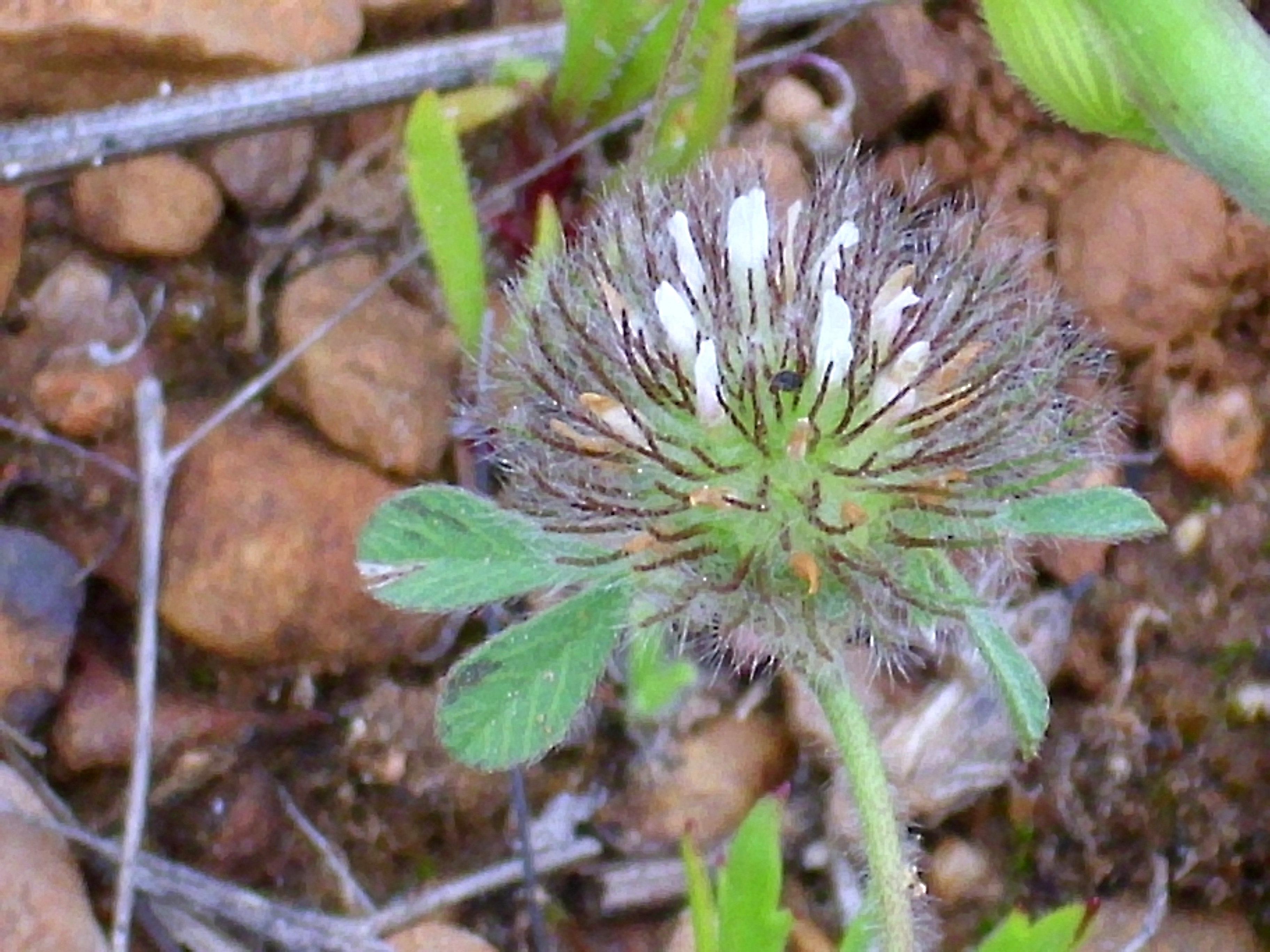 Trifolium cherleri close up, Dehesa Boyal de Puertollano, Spain